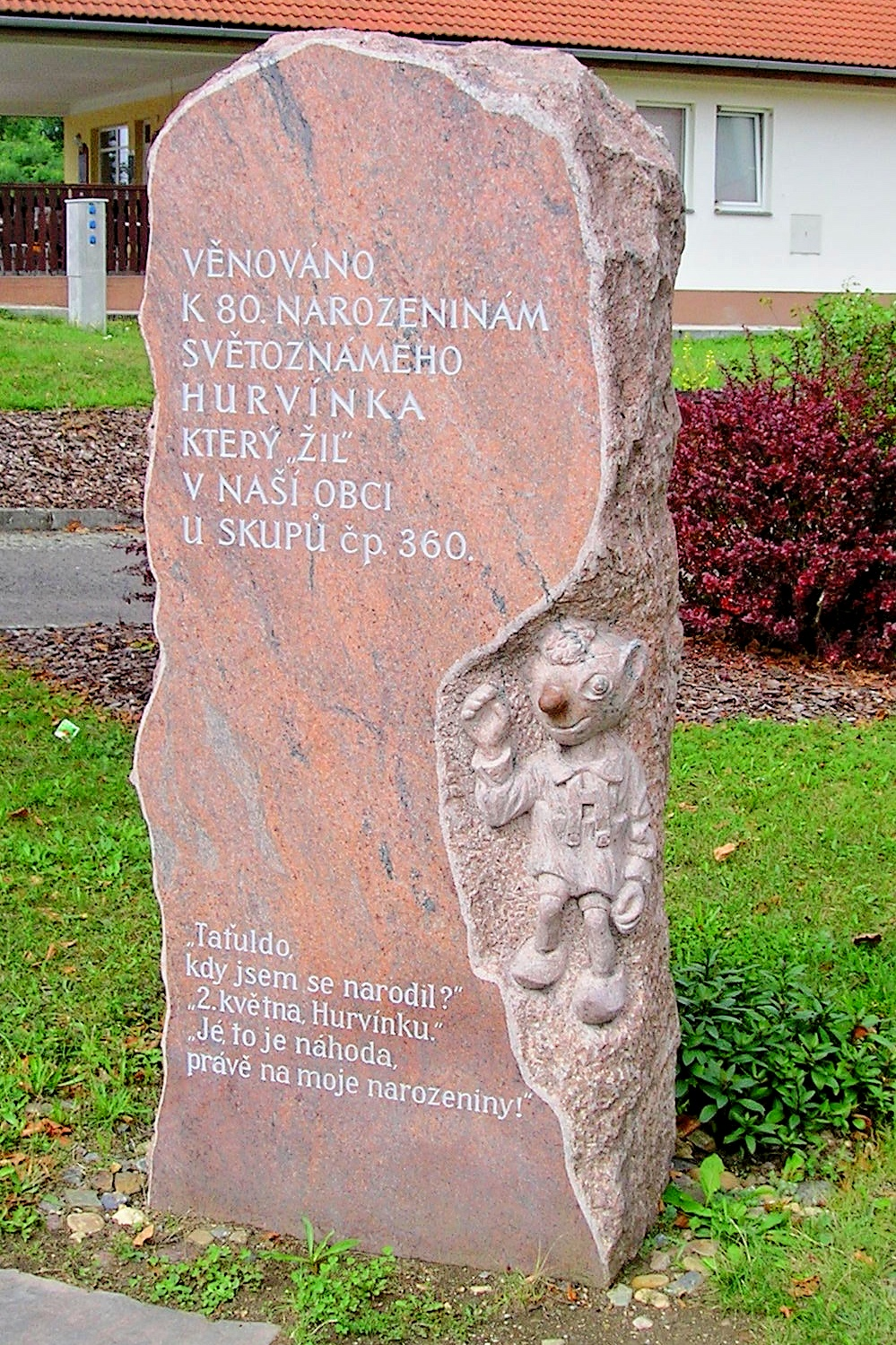 Funny Memorial. - Photo Mr.JaroCZ.